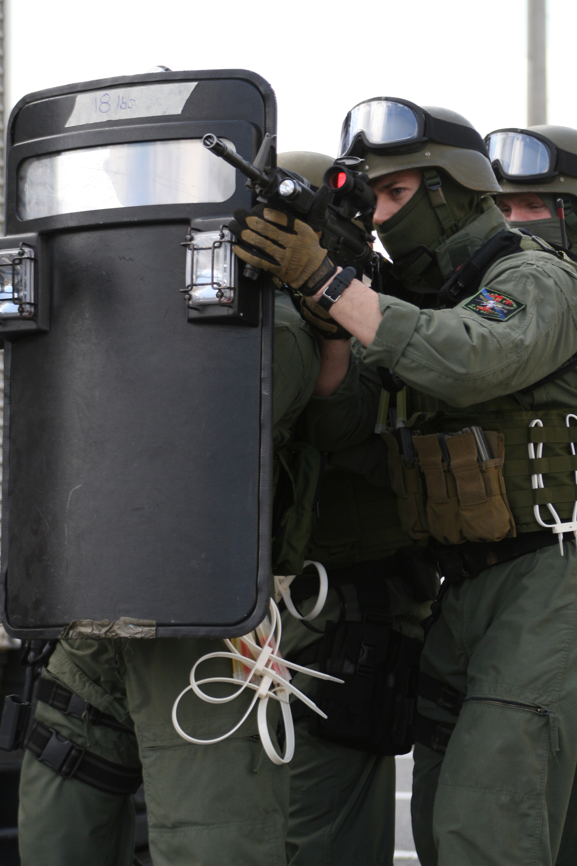 The Provost Marshal’s Office Special Reaction Team practices with a riot shield before taking part in a simulation during exercise Active Shield here March 2 outside of the fire training tower. The simulation involved several suspects taking two hostages as the SRT attempted to gain access the building.